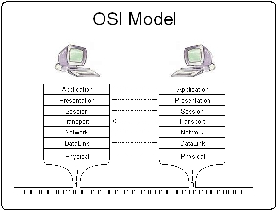 OSI Model. Traditional.